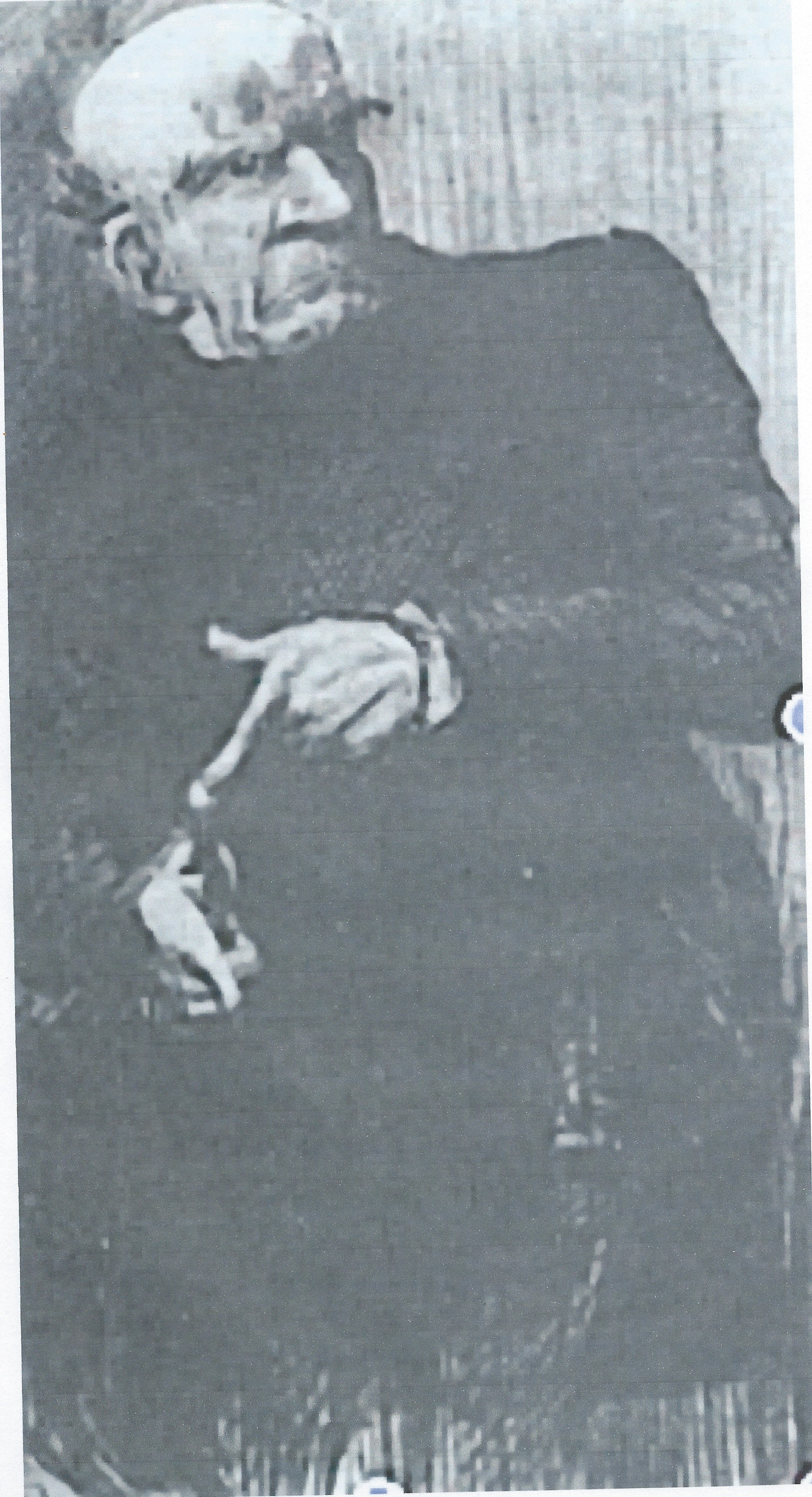 Hard Times, Gradgrind, portrait by Harry Furniss, 1910.